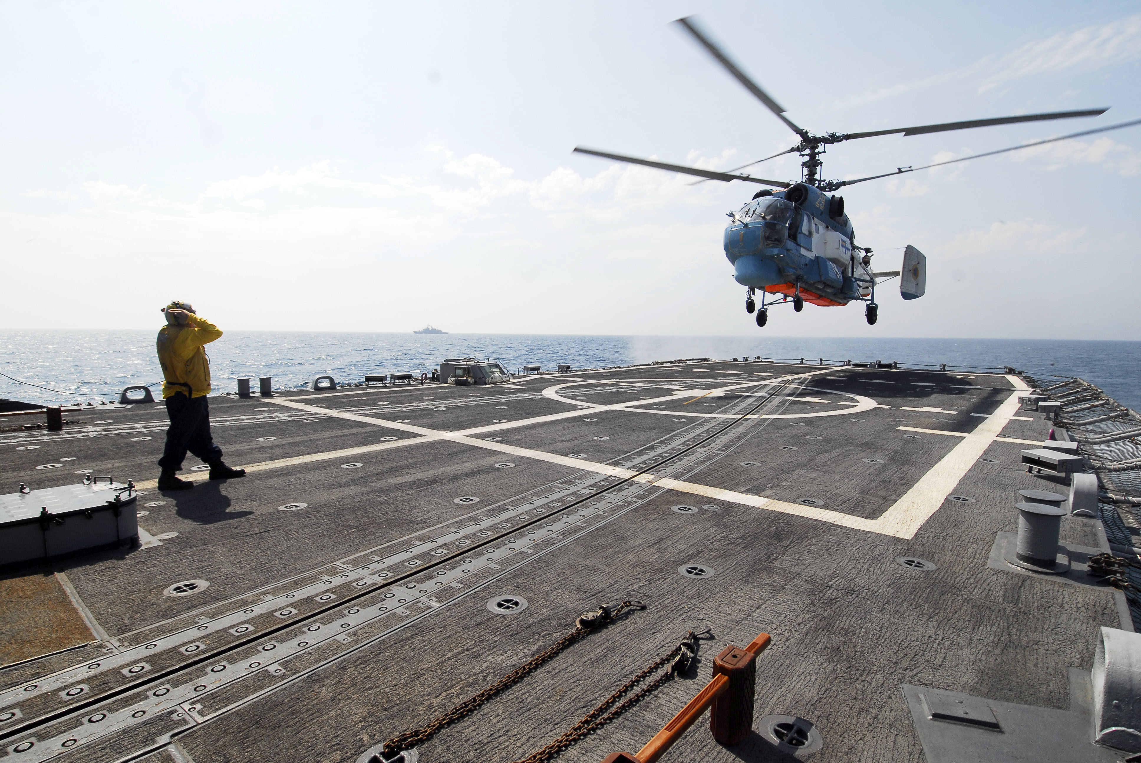 BLACK SEA (July 20, 2010) A Ukrainian navy KA-27 Helix helicopter from Saki Naval Air Base in Ukraine, conducts deck land qualifications with the guided-missile frigate USS Taylor (FFG 50) during exercise Sea Breeze 2010. Sea Breeze is an annual multinational exercise designed to strengthen maritime partnerships in the Black Sea region in the spirit of partnership for peace. (U.S. Navy photo by Mass Communication Specialist 1st Class Edward Kessler/Released)